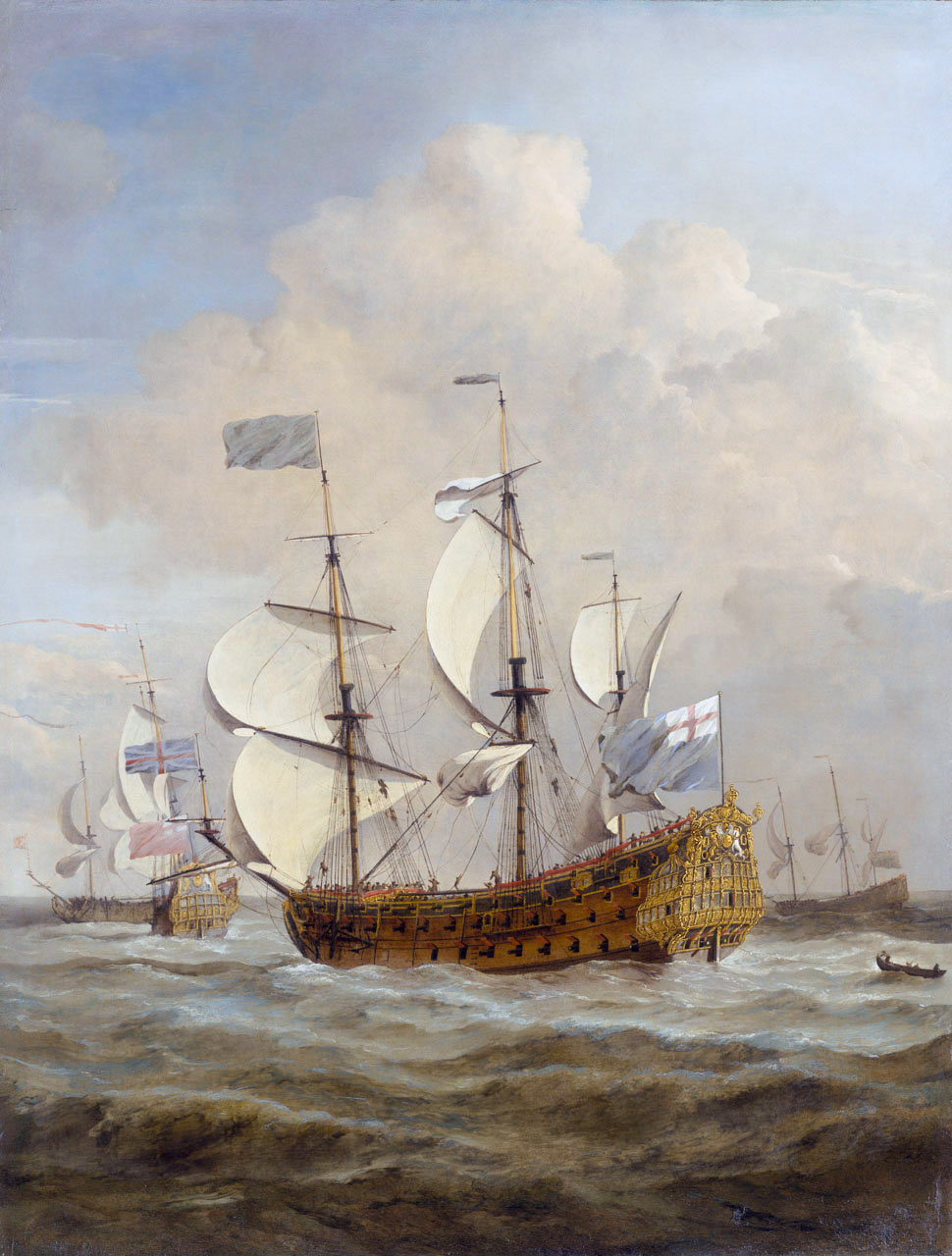 The ship was rebuilt and renamed HMS Royal Anne in 1703